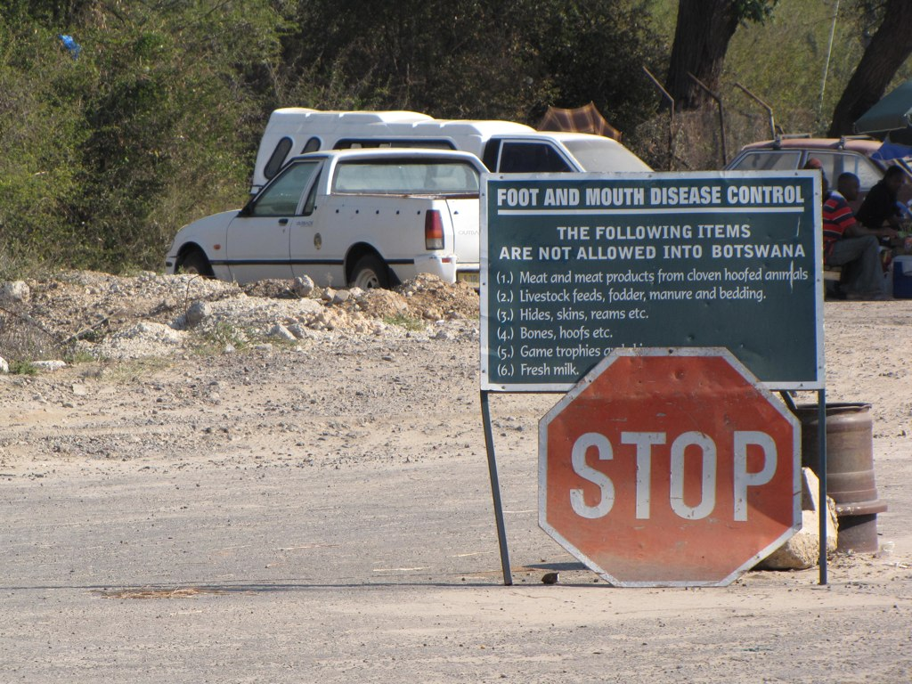 At the Botswana border.